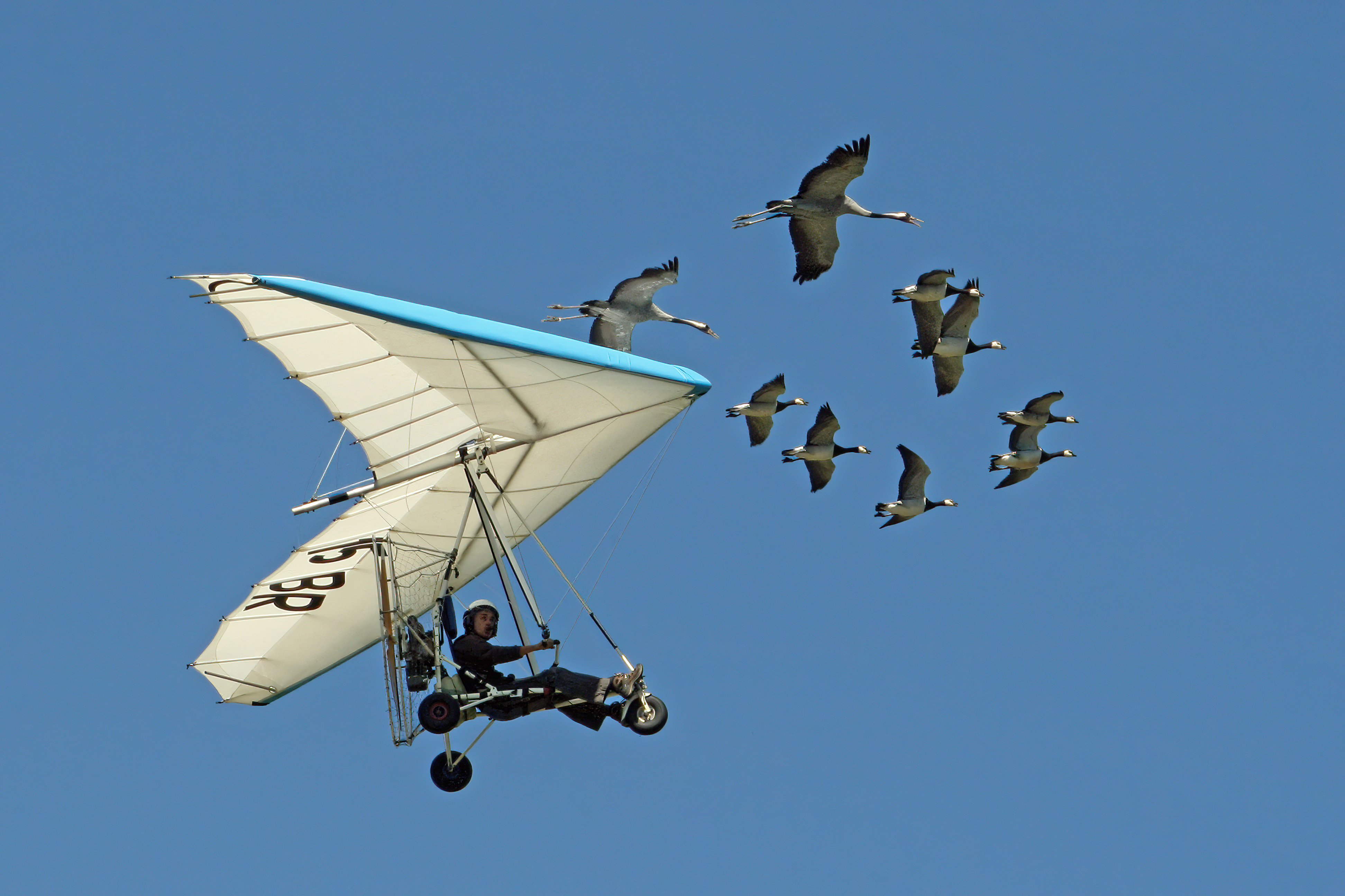 Christian Moullec flying with geese in Dahlem, Germany